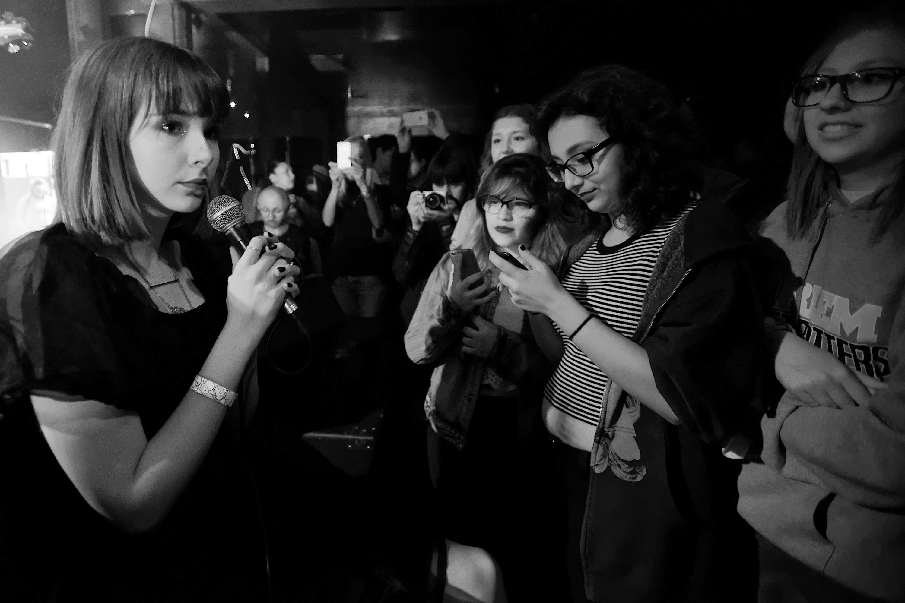 The Regrettes performing live at The Echo in Echo Park (Los Angeles) California on Saturday May 28th, 2016. Part of the "Play Like A Girl" showcase of up-and-coming local female-fronted rock bands, presented by Play Like a Girl L.A., GIRLSCHOOL, and KQOQ Locals Only. The Bulls, Kera and The Lesbians, and Night Talks also performed.